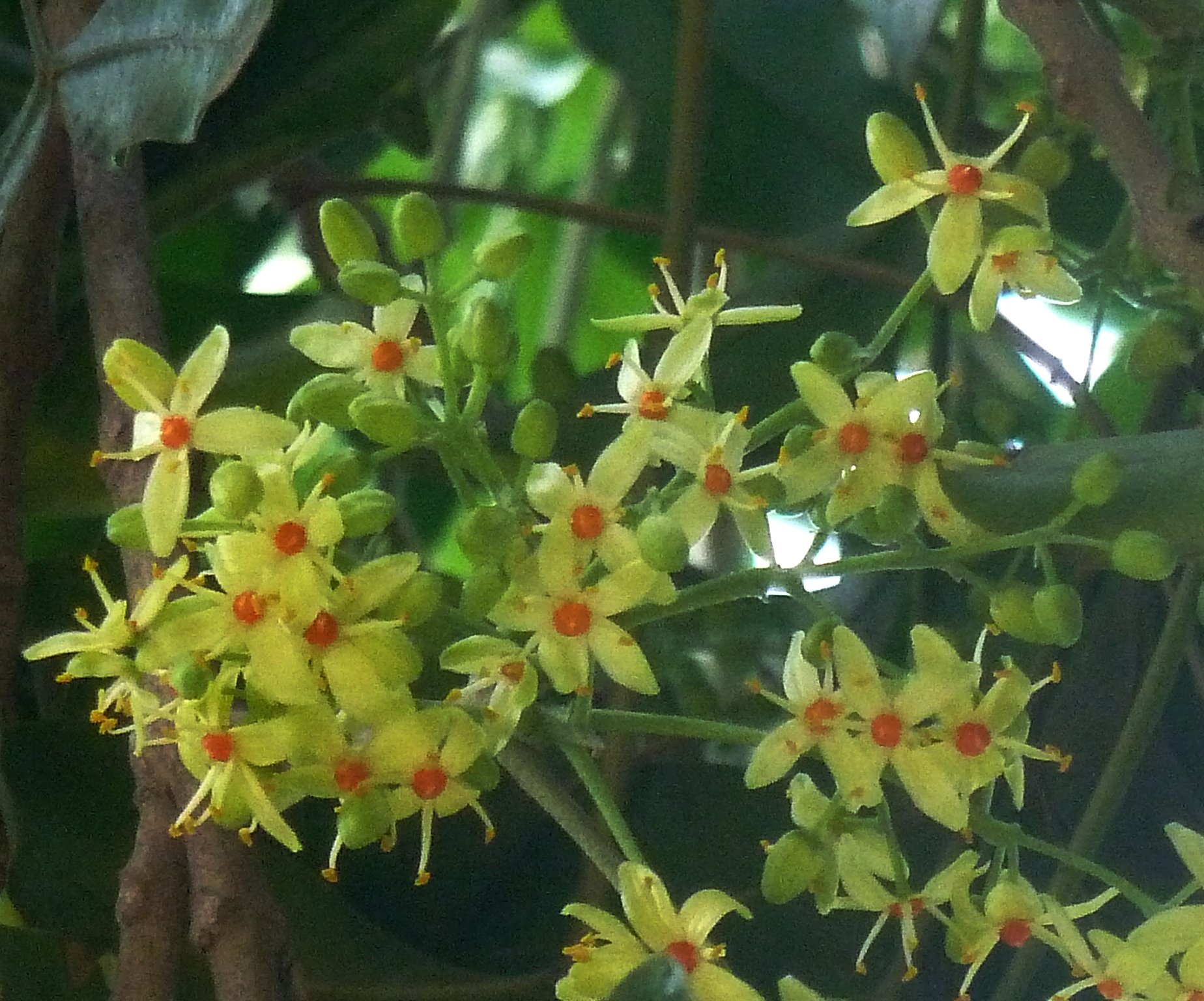 Male flowers of Sneezewood in the Manie van der Schijff Botanical Garden, Pretoria